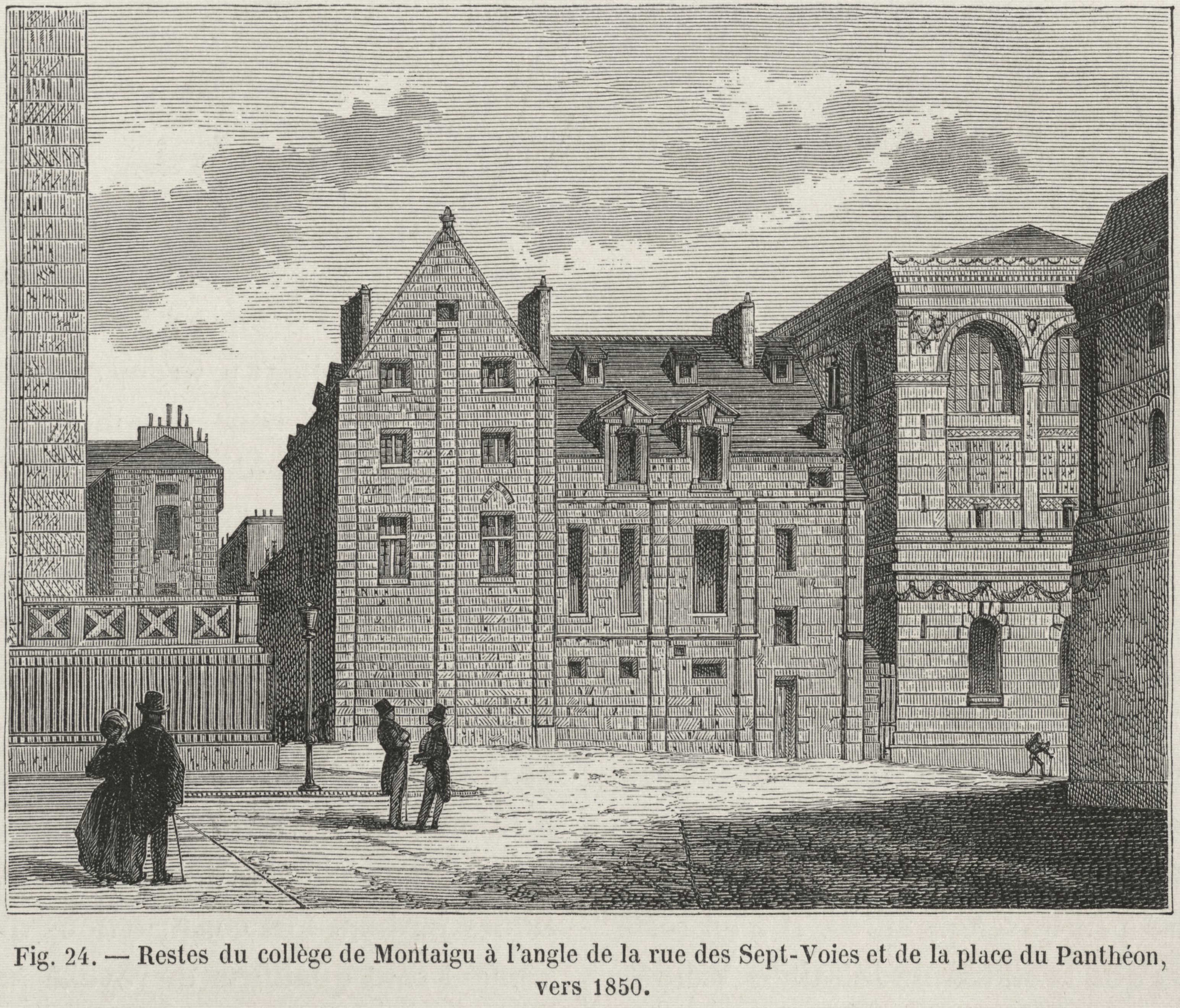 Constructed during the fourteenth century, the Collège de Montaigu à was part of the Faculté des Arts of the Université de Paris. It was eventually transformed into a military hospital during the July Monarchy, destroyed soon after, and rebuilt in 1850.